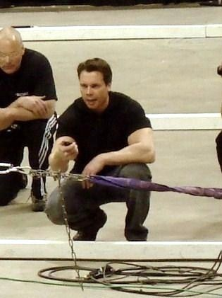 Jouko Ahola - a former top strength athlete from Finland.